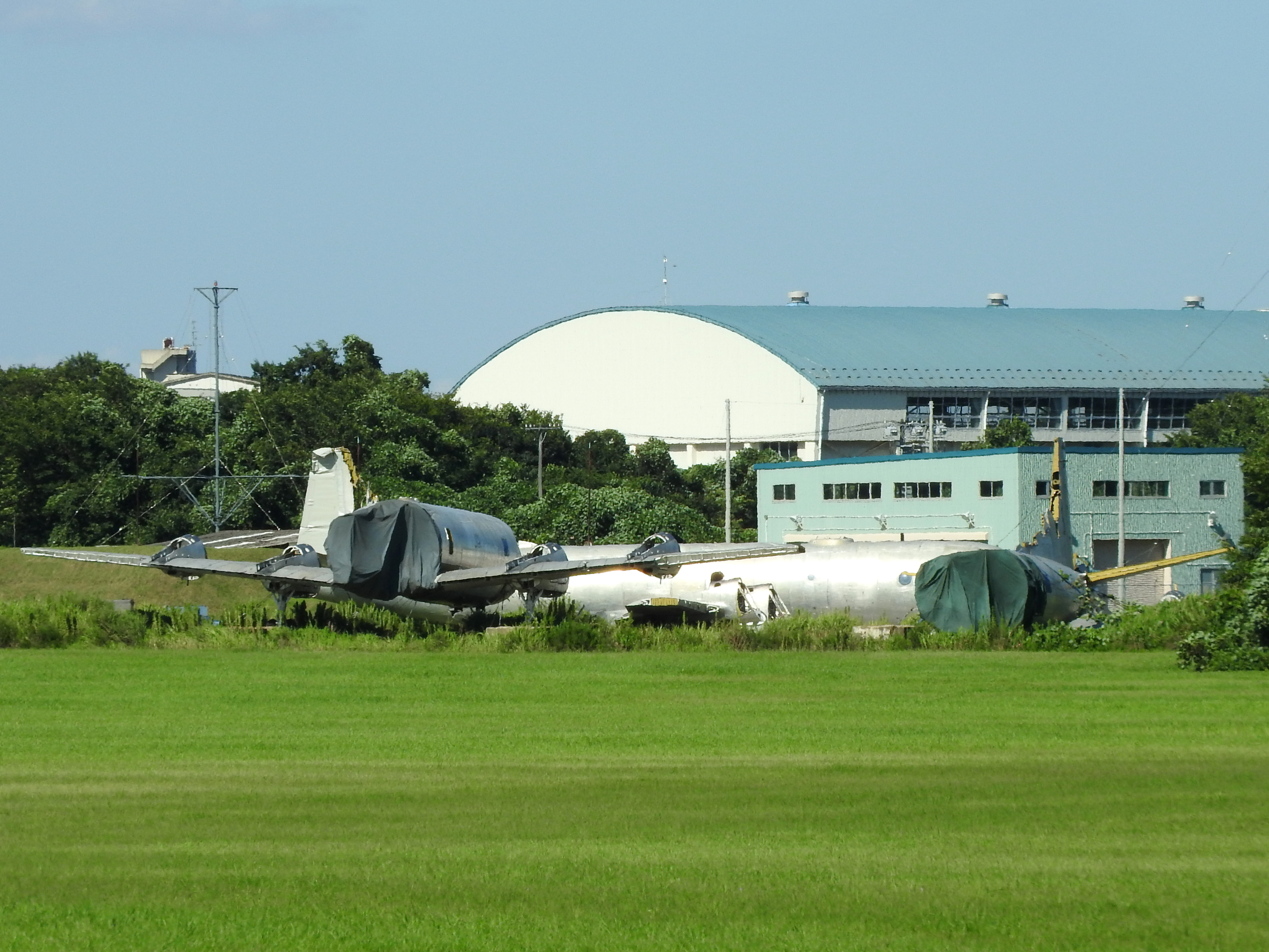 Two wrecked P-3 Orions at NAF Atsugi, Kanagawa Prefecture, Japan. Along with another Orion they were crushed beyond repair in a hangar crushed by heavy snowfall in February 2014.